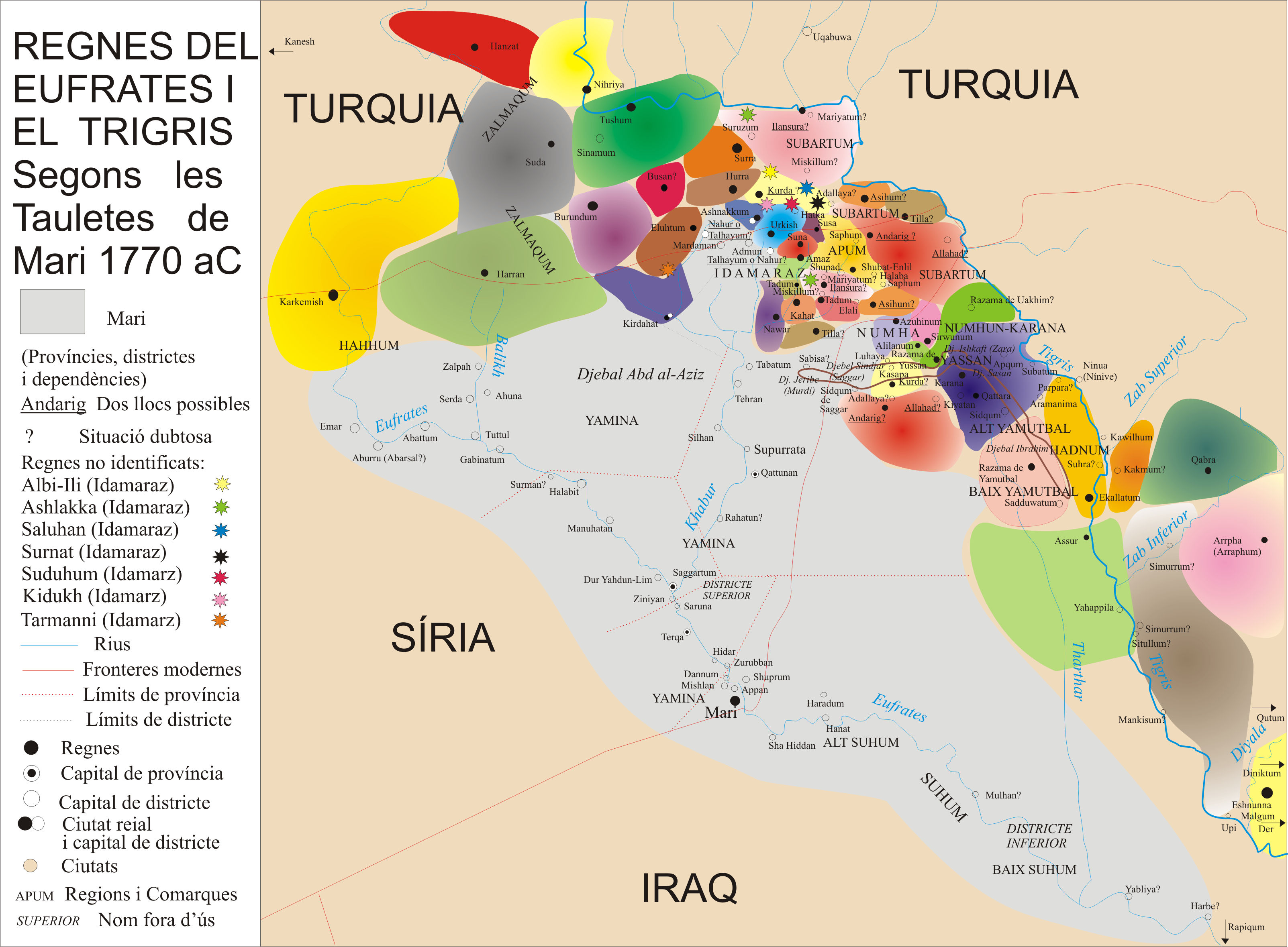 Mari and neighboring states